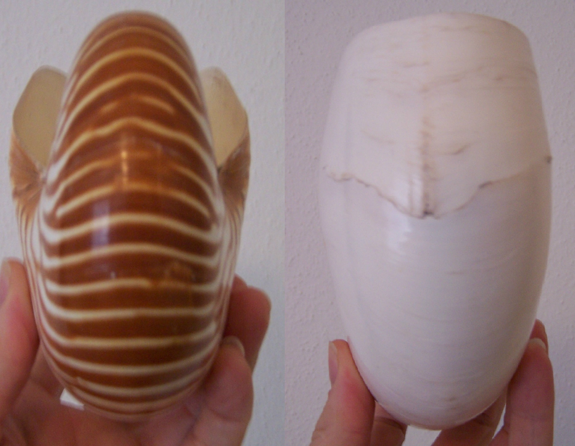 This is a nautilus shell viewed from underneath. When looking up, the white shell blends in with the light from above. Note the spot where the animal's shell and mantle were damaged, yet the mantle was able to heal and grow the shell back. This was possibly from a predator attack. This shell came from the South Pacific.